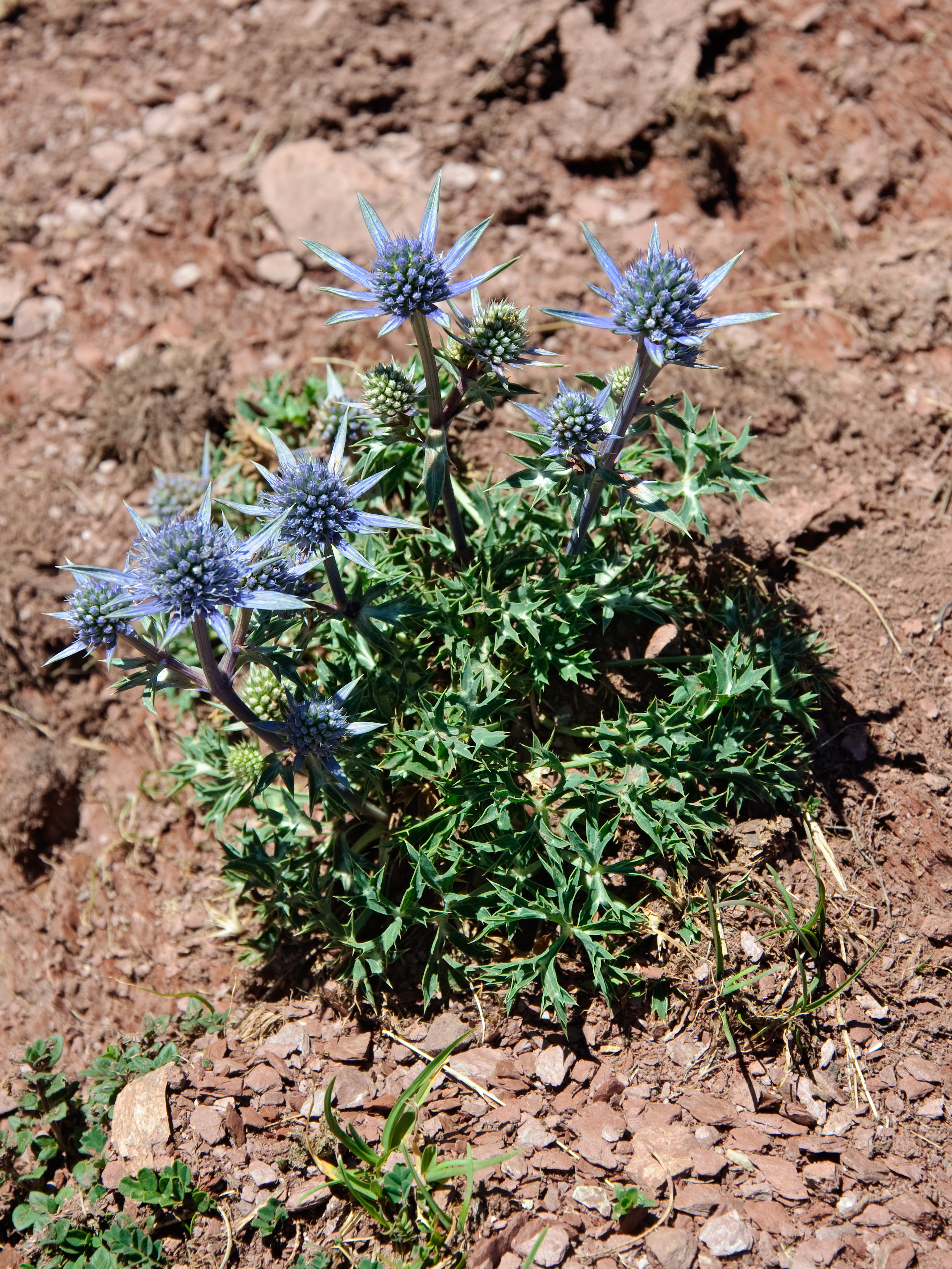 Mediterranean Sea Holly (Eryngium bourgatii), near the lake of Estaens in the Pyrenees.